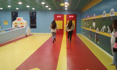 Lunada Children Museum